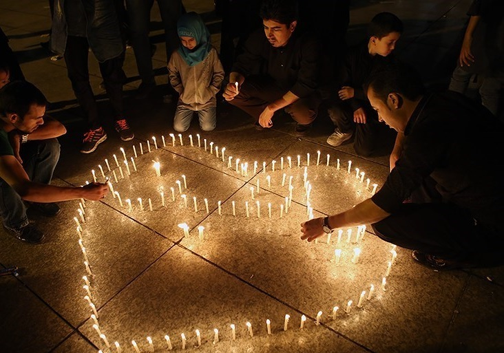 People lighting candles for Husayn ibn Ali and his fellowships that killed in Battle of Ashura in Tehran's Imam Hossein square